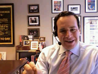 David Frum. Image source is a screen shot from a BloggingHeads.tv video podcast.